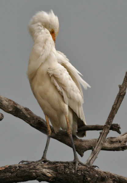 Eastern Cattle Egret Bubulcus coromandus near Hodal in Faridabad District of Haryana, India.